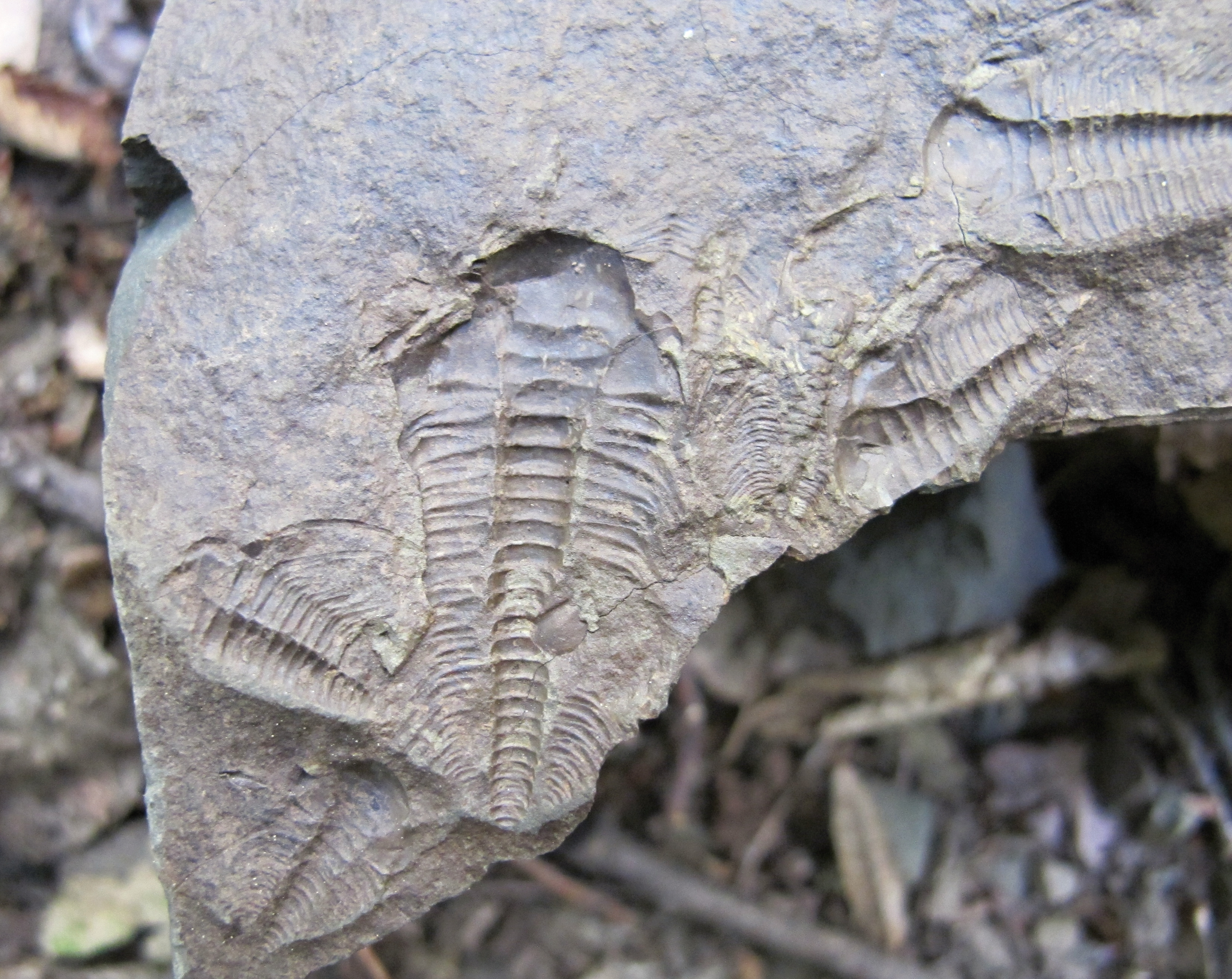 Trilobites (Cambrian age) in natural monument Vinice near Jince in Příbram District